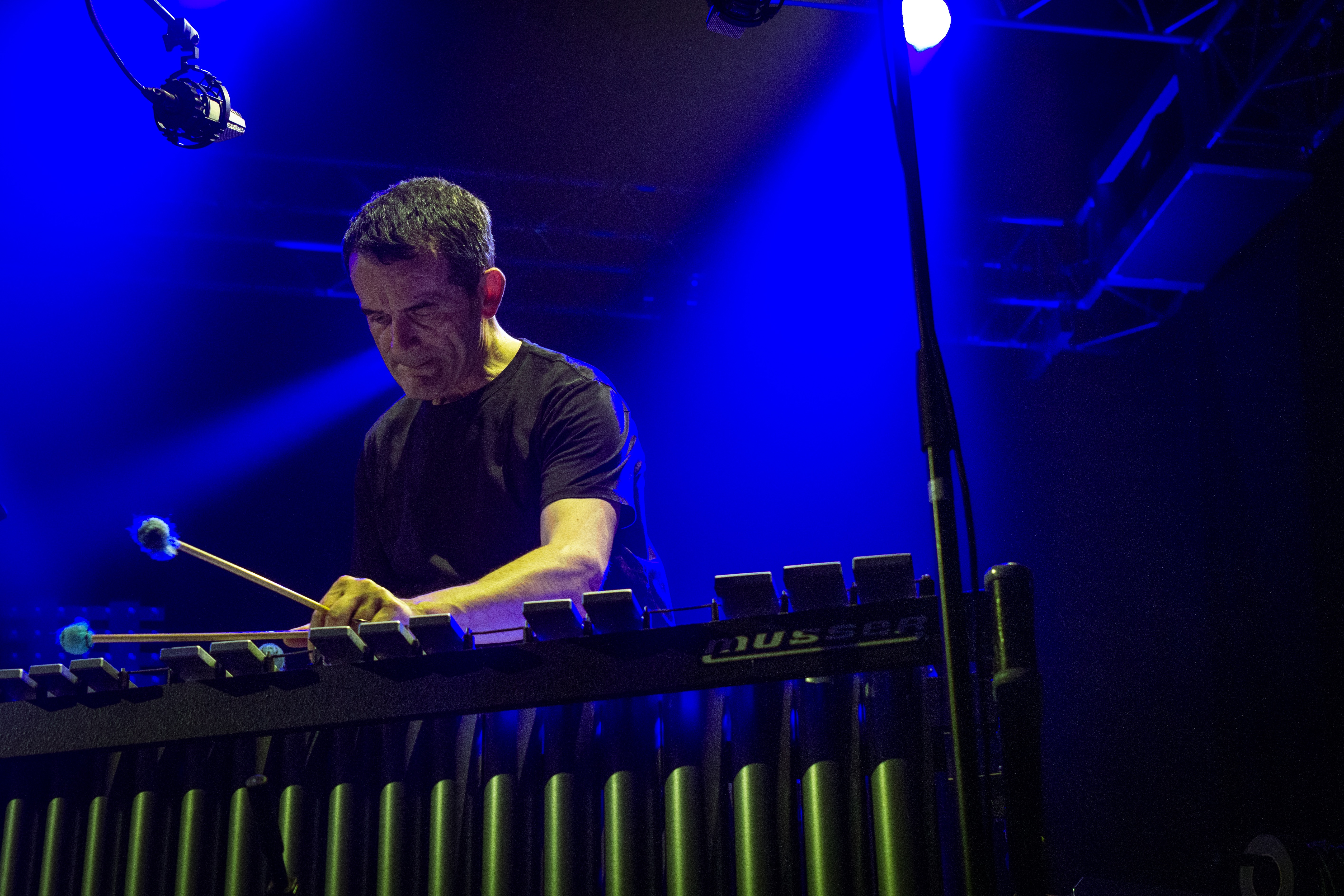 François Narboni, composer and vibist